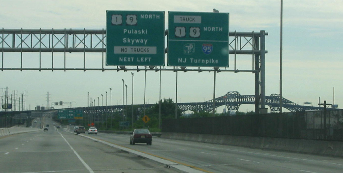 Northbound US 1/US 9 approaching the Pulaski Skyway. Photo taken May 31, 2004 by User:SPUI.